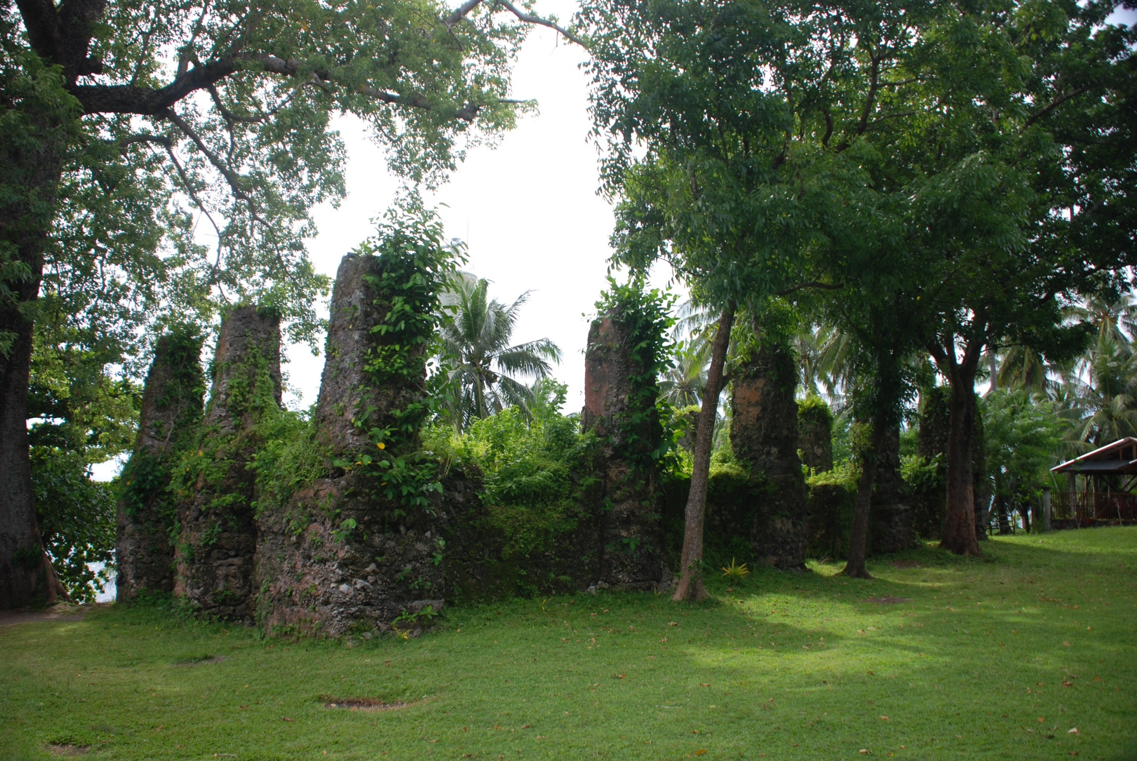 The ruins of the Church of Catarman on Camiguin Island after it was damaged by the flank eruption of Mount Hibok-Hibok and the formation of Mount Vulcan from 1871-1875.